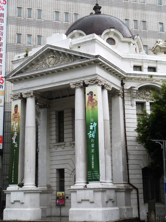 Taichung City Hall."Taichung City Government" is named wrong.